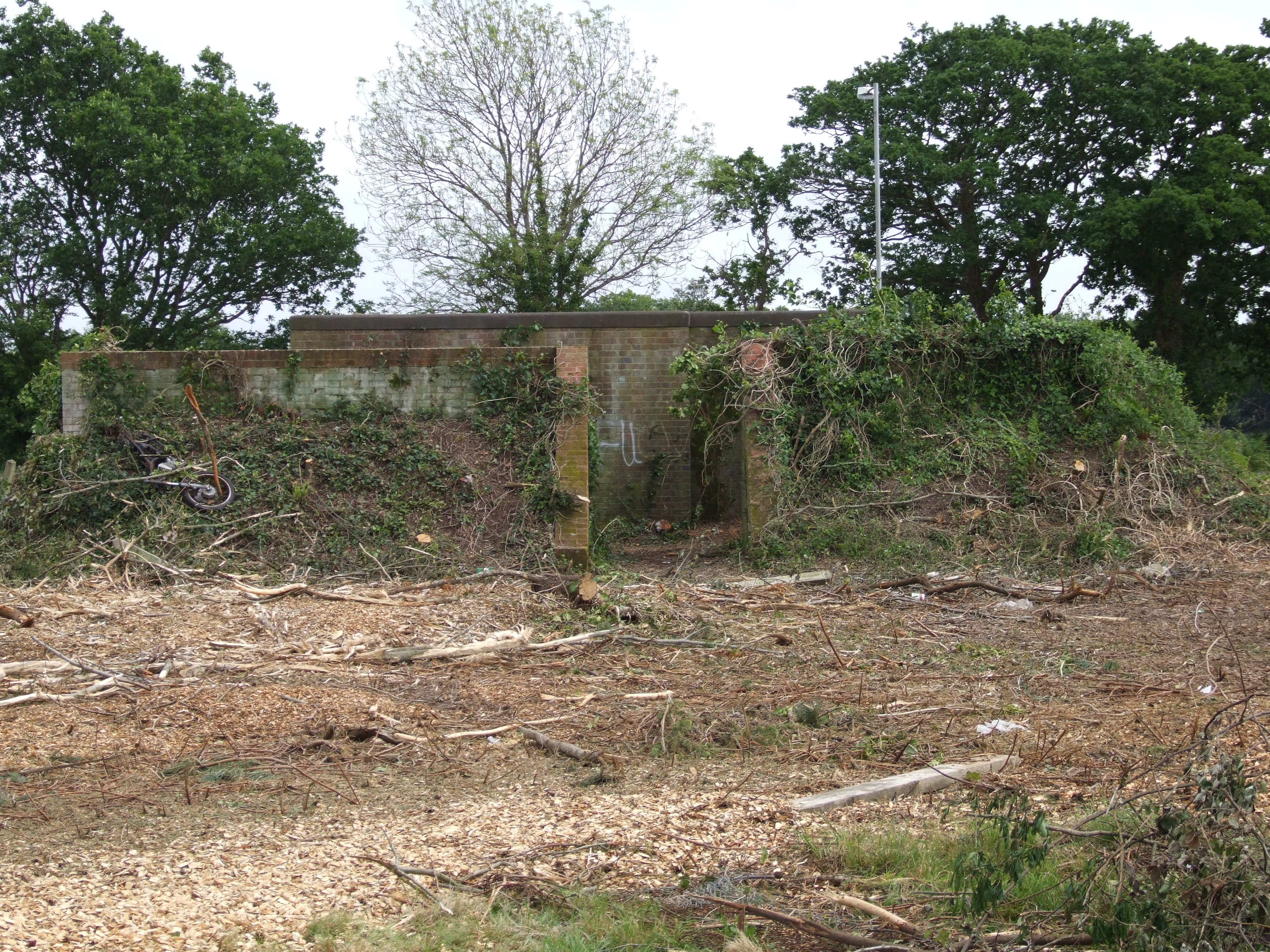 Brick Blockhouse discovered whilst clearing land on the NE side of site of RAF Warmwell